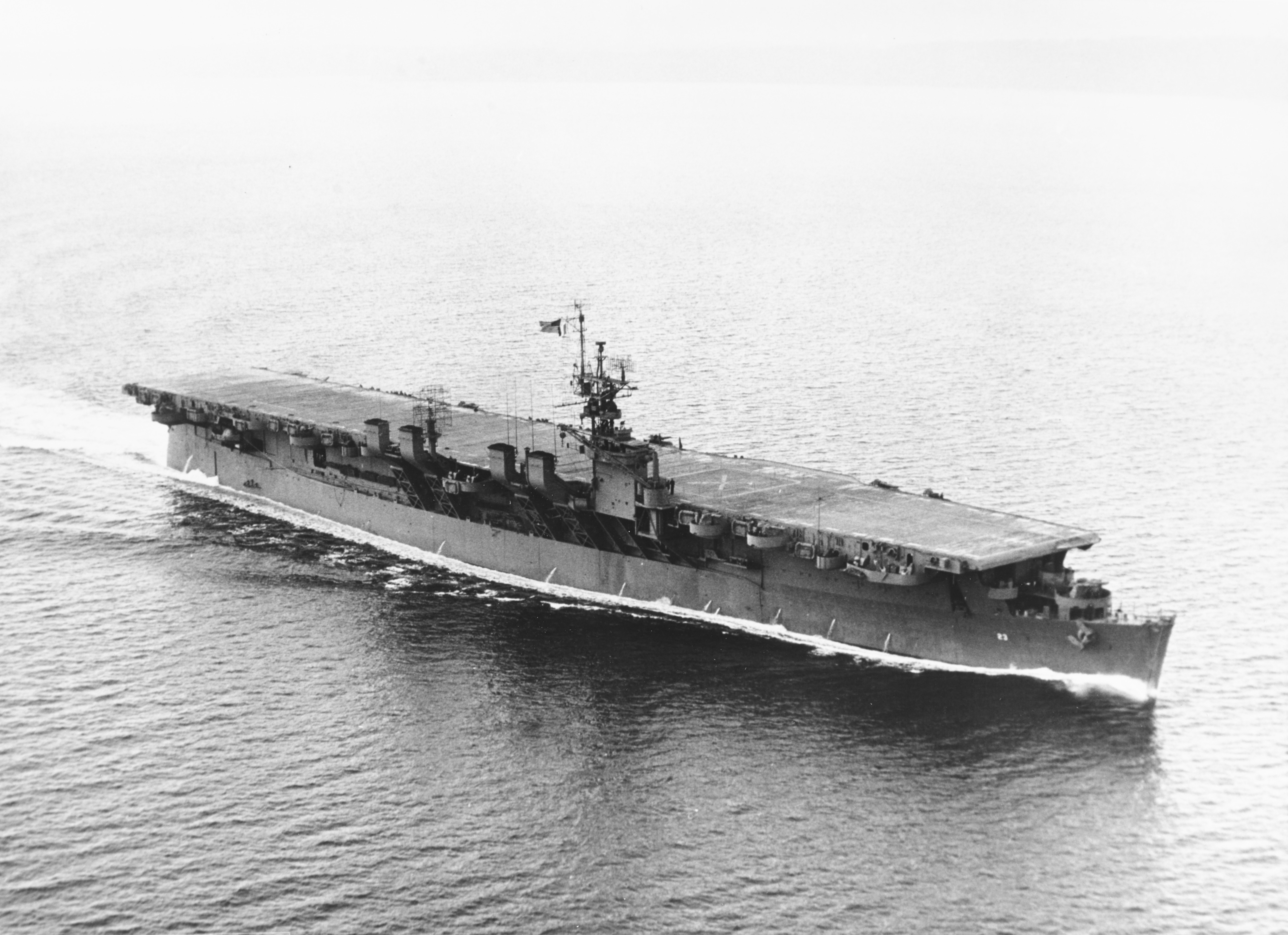 The U.S. Navy light aircraft carrier USS Princeton (CVL-23) steaming at 20 knots off Seattle, Washington (USA), on 3 January 1944.